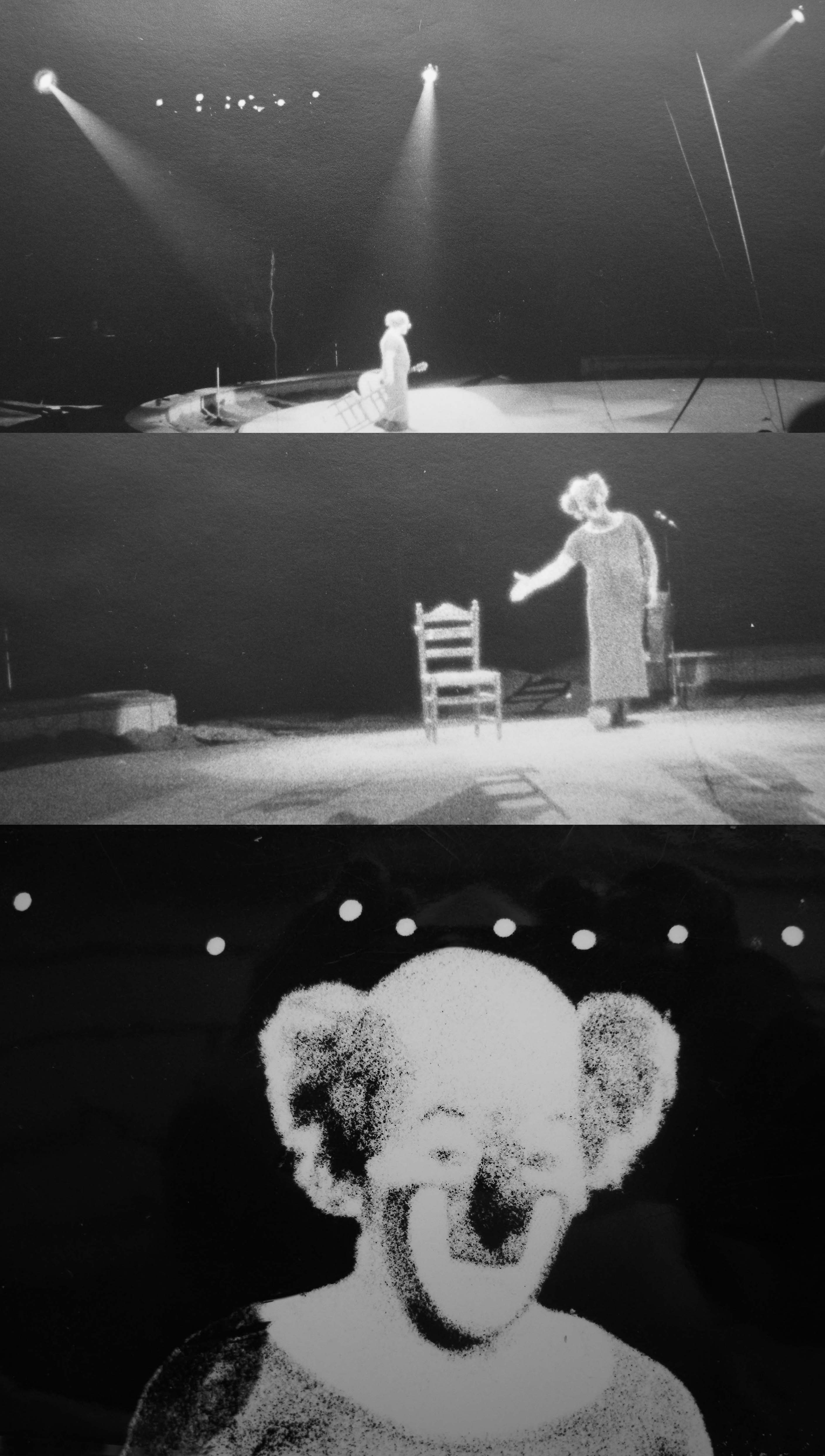 The gig only consisted in one poor person (the clown) entering stage, carrying his guitar and training a chair, and trying for quite a while just to sit down on the latter, being successful at the end. It ended with a few Flamenco sounds, by the clown and his guitar. Public was but 'stunned' for these some 5 minutes... Decades later, I learned that C. Rivel had stolen thisone gig from another (by-far less successful) member of his family and was 'banned' by the family, afterwards... [w.] 09:36, 18 May 2014 (UTC) Photographs were taken in Wiener Stadthalle in 1972 with Nikon 50mm (bottom) and Novoflex 300mm lenses, on Kodak Tri-X, on more than one occasion. Exposure was about 1/30s-1/60s, open aperture. 1972 ATA (stands for Artisten, Tiere, Attraktionen) performances happened from February_12 to March_14. Note: File might be overwritten by similar in slightly better resolution, as soon as 'available'. Very private note: After attending one of those ATA performances, I decided to buy another ticket, in order to bring along my Nikon_F with my at.that-time only existing 50mm/F:2 lens, and risked to be kicked off when approaching the clown. I was not kicked off, but brought home but one 'useable' frame. On later occasions I had borrowed from a friend the monstrous Novoflex 300mm lens, designed for press and wildlife photography, but did not move from my (cheap) seat. However poor, these pics changed my life. [w.] 09:36, 18 May 2014 (UTC)